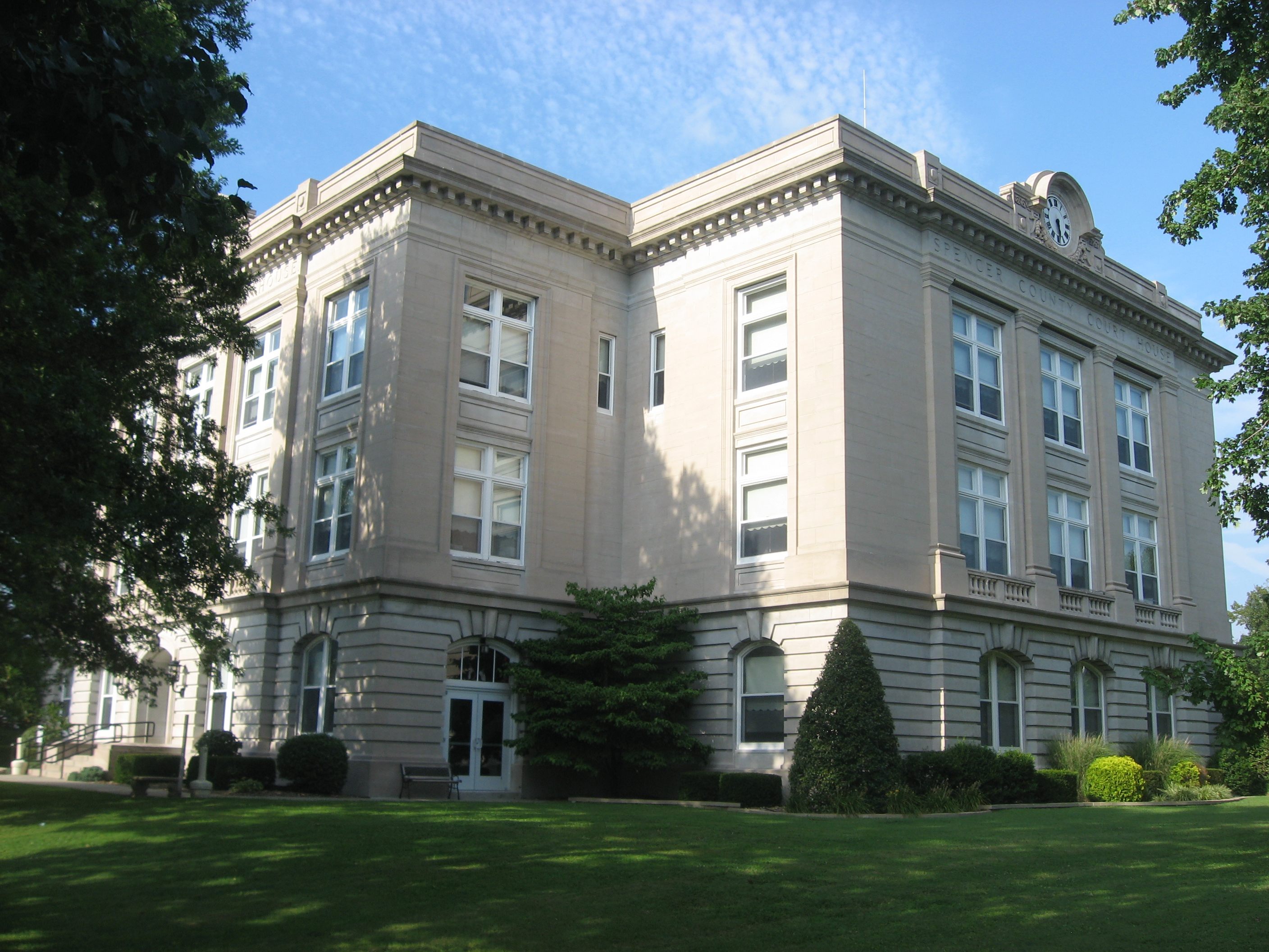 Western and southern sides of the Spencer County Courthouse, located on Courthouse Square in Rockport, Indiana, United States. Built in 1921, it is listed on the National Register of Historic Places.